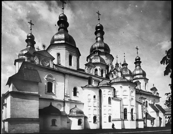 St. Sophia Cathedral (Kiev, Ukraine)